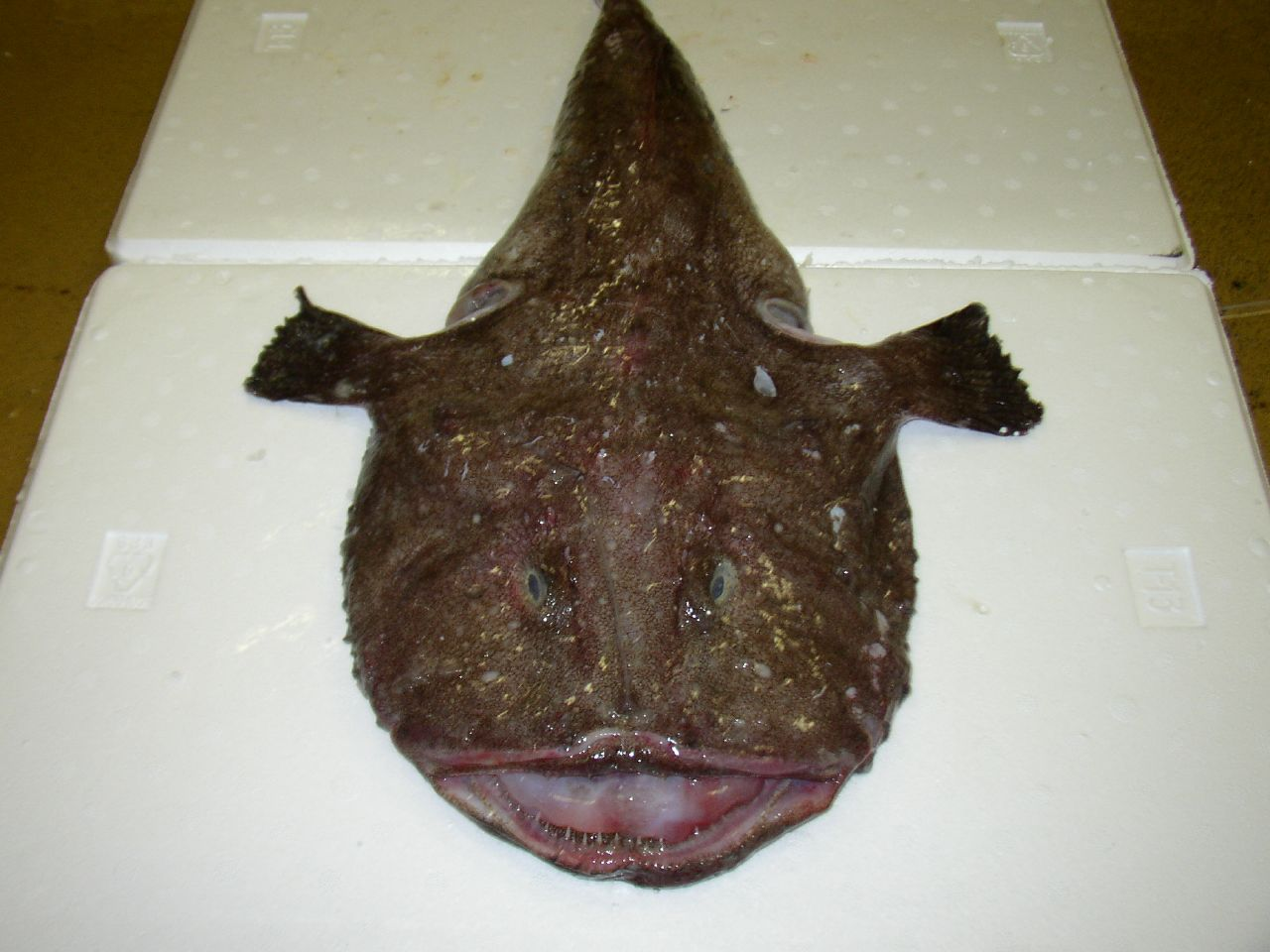 Rabada en Vigo (Lophius budegassa). Black Bellied Anglerfish (Lophius budegassa).